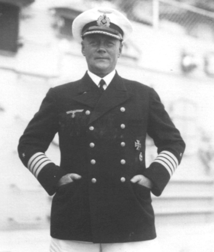 Kapitän zur See Konrad Patzig, first commanding officer of 'Admiral Graf Spee'